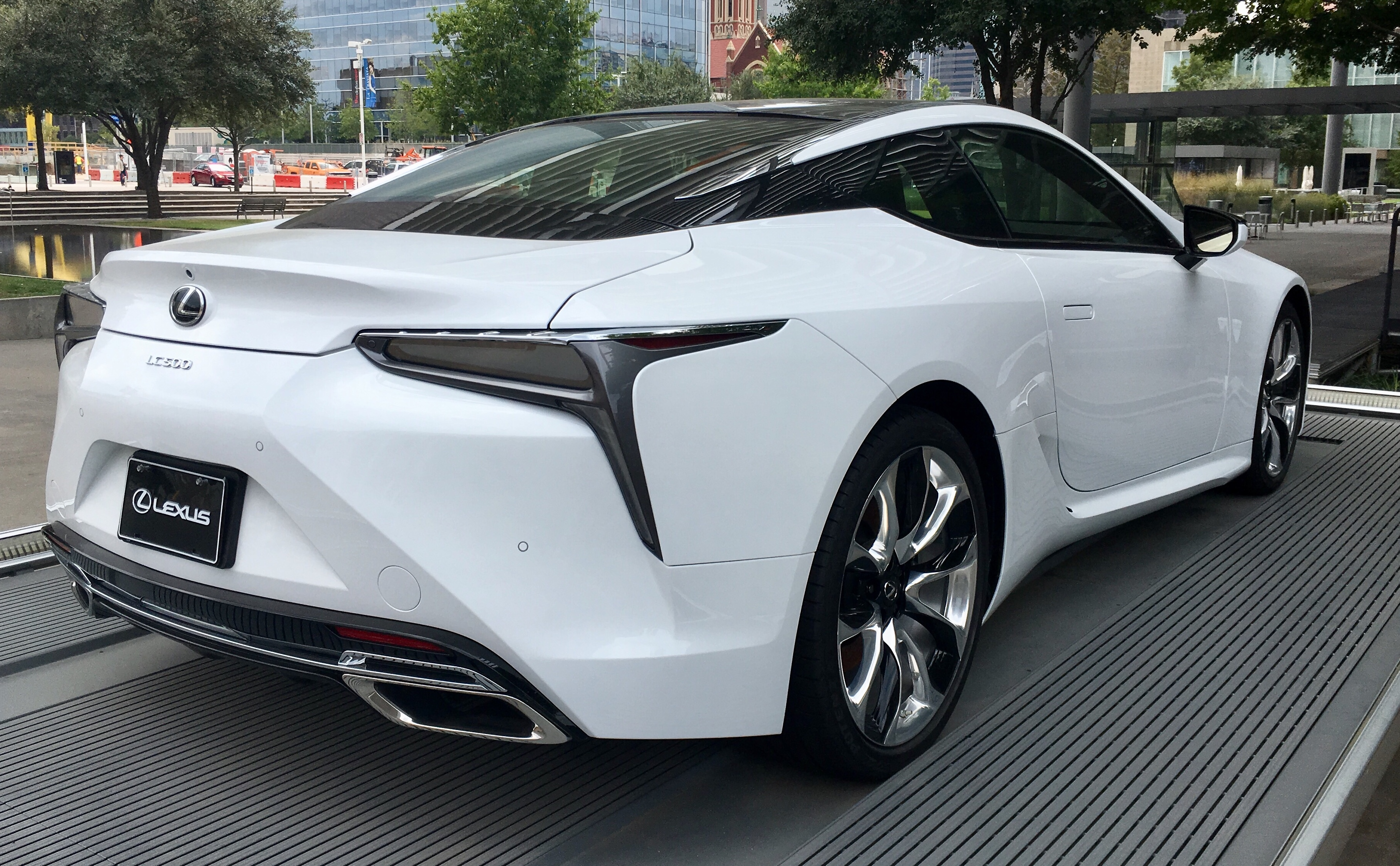 LC500